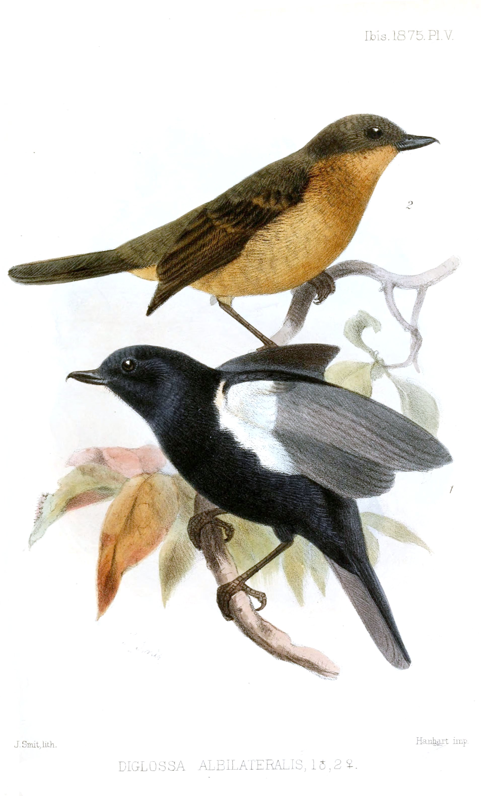 « Diglossa albilateralis » = Diglossa albilatera (White-sided Flowerpiercer)